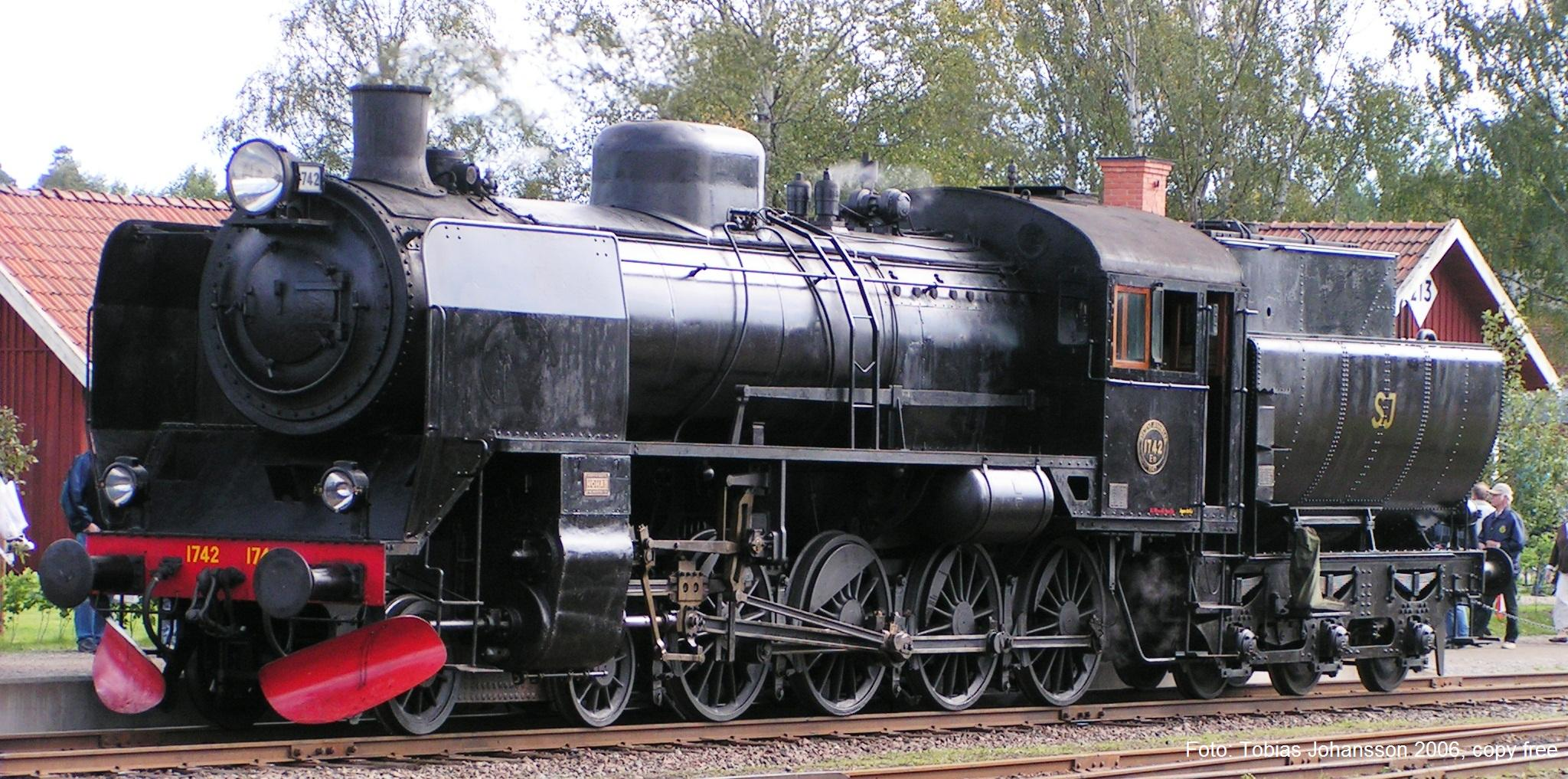 Swedish steam engine SJ E10 1742 in Gävle 2006